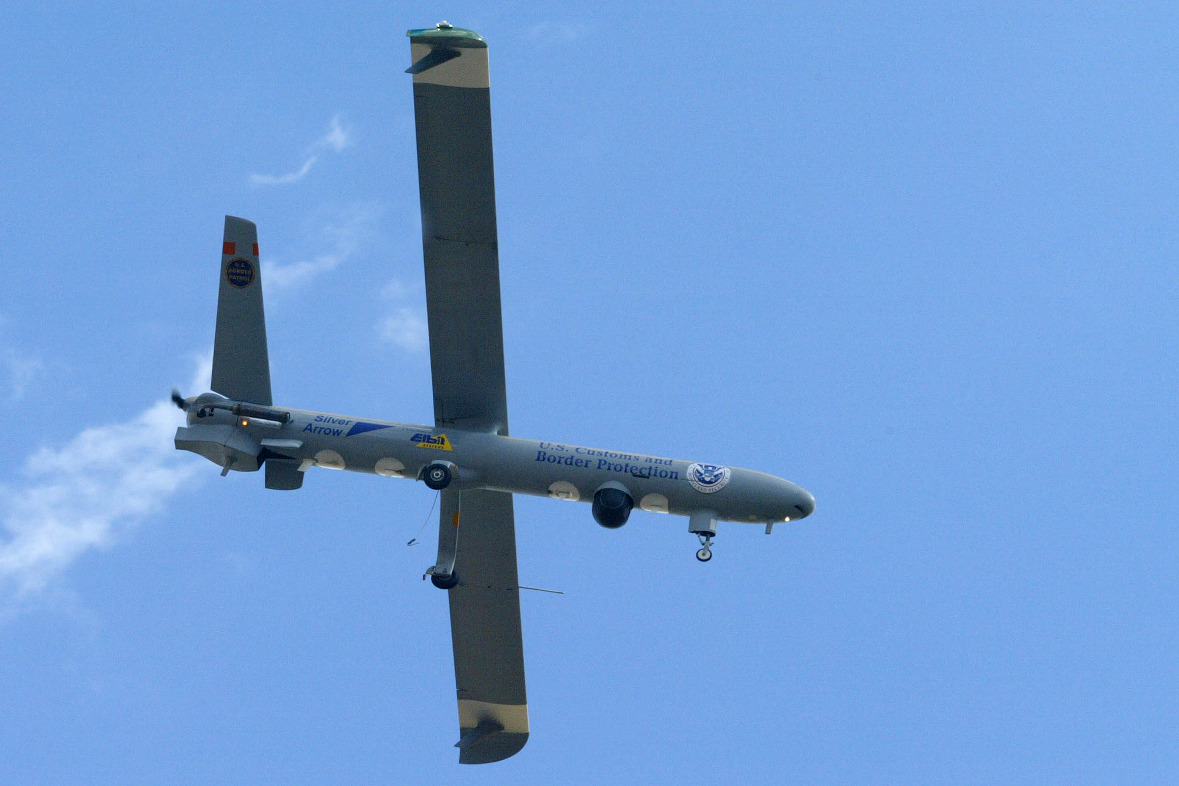 An Hermes 450 Unmanned Aerial Vehicle (UAV) of U.S. Customs and Border Protection in flight.